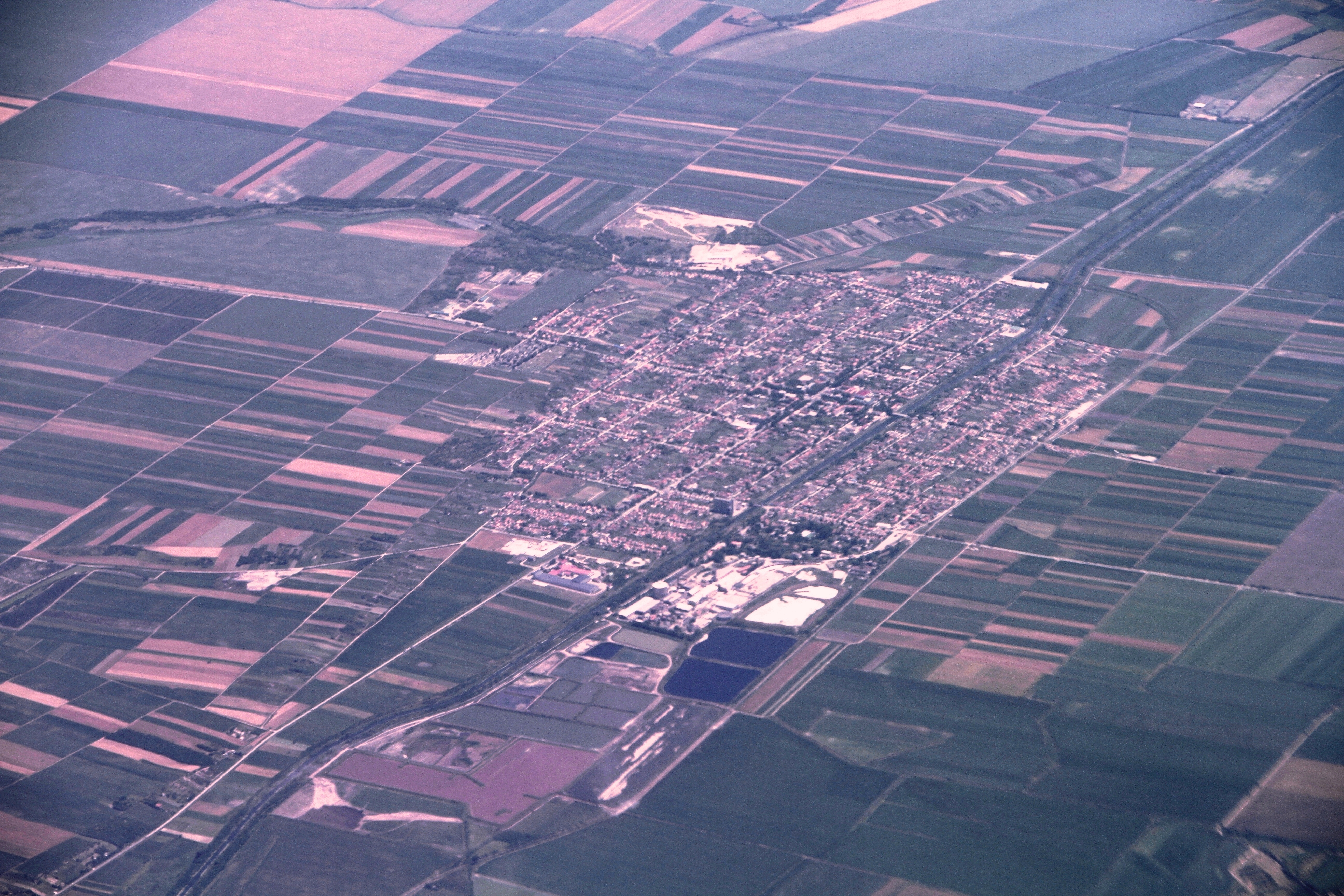 Aeril view - from the west towards east - over the agricultural lands of Vojvodina, northern Serbia.